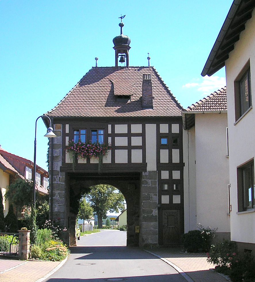 Treinfeld (Markt Rentweinsdorf, Landkreis Haßberge, Lower Franconia, Germany). Historic gatehouse (1551)